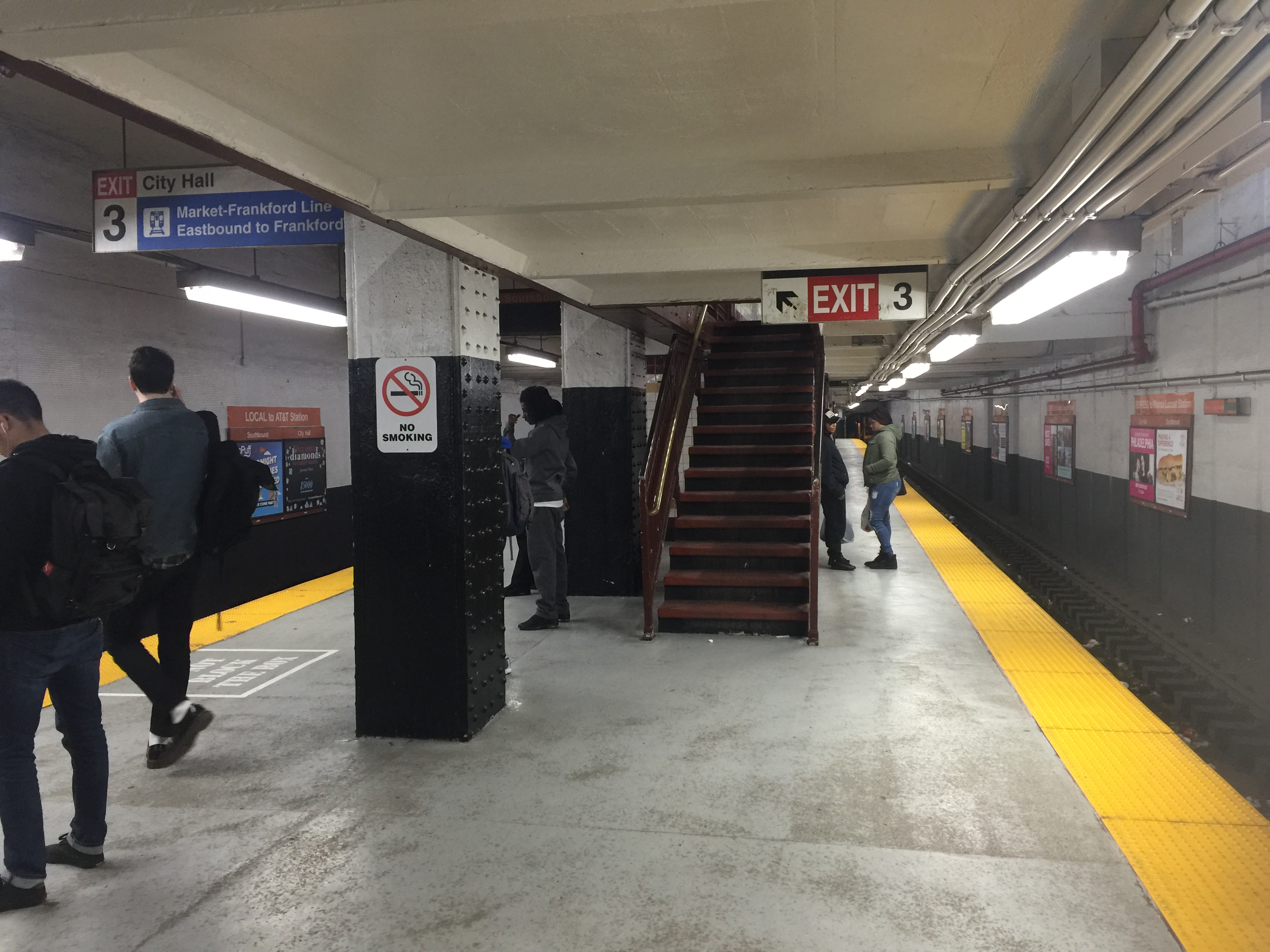 City Hall